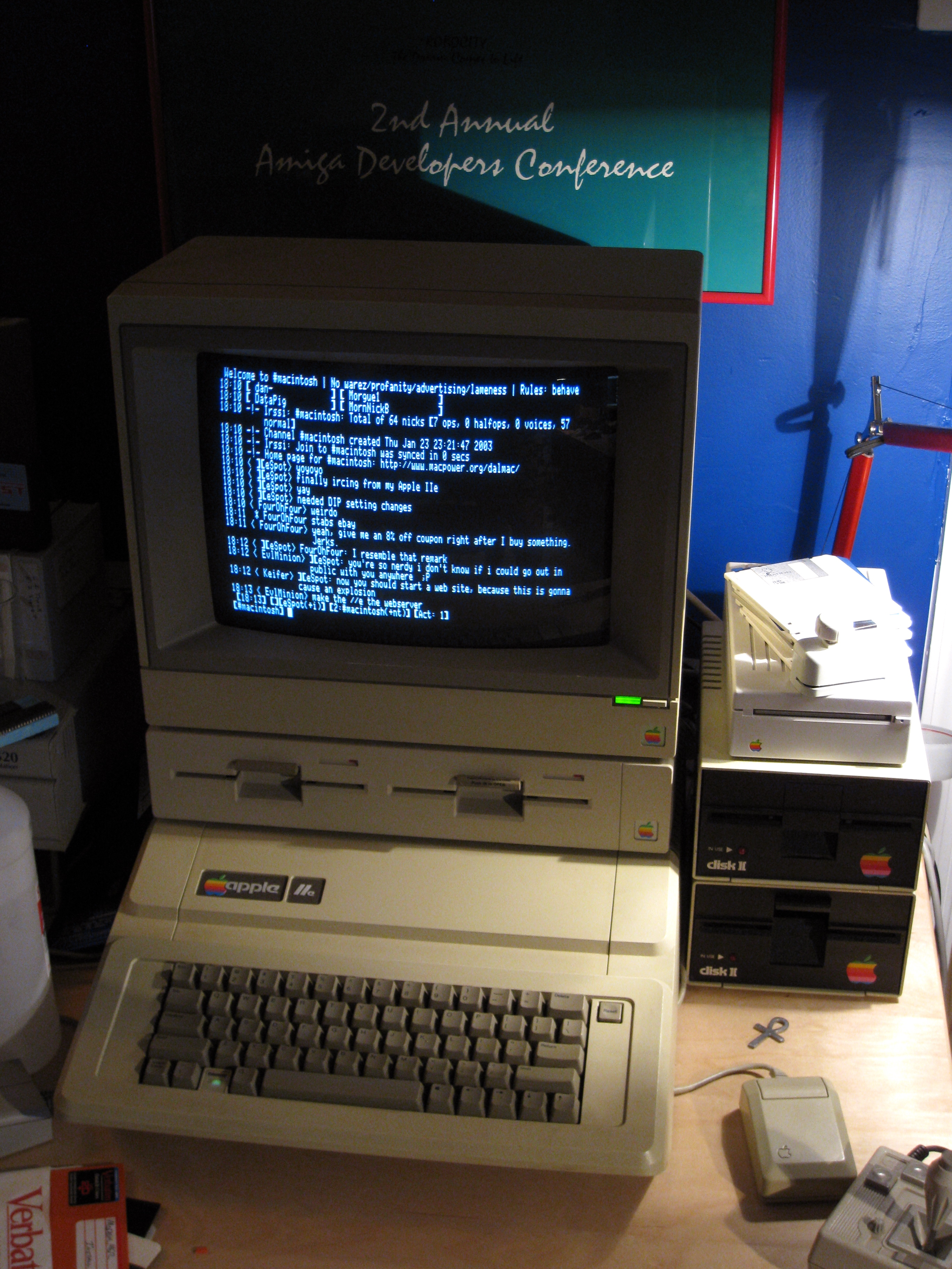 Apple IIe serial terminal to my Mac Pro. Seen here running terminal-based IRC client 'irssi,' via SSH session to my remote Linux server (through the local Mac Pro). Abstraction defined... See a close-up of the screen here.